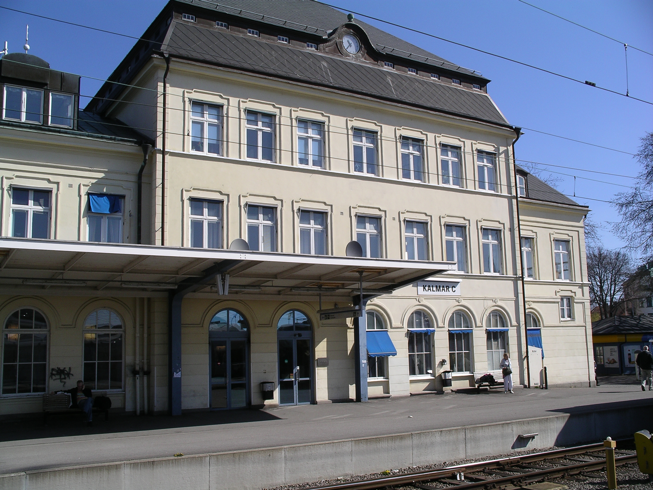 Railway station Kalmar in Sweden